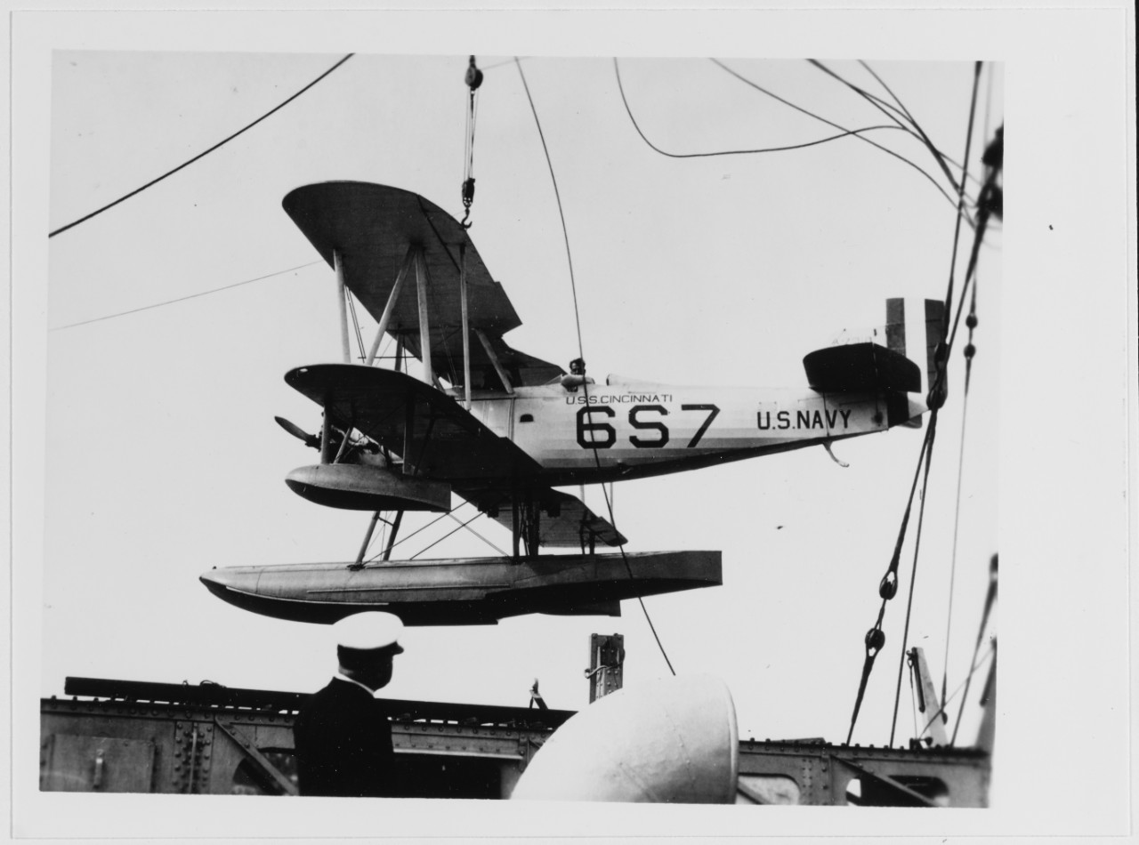 Vought O2U-1 Corsair floatplane (Bureau # A-7918) Suspended over a ship's catapult during the later 1920s. This plane, from Scouting Squadron SIX, is assigned to USS Cincinnati (CL-6).